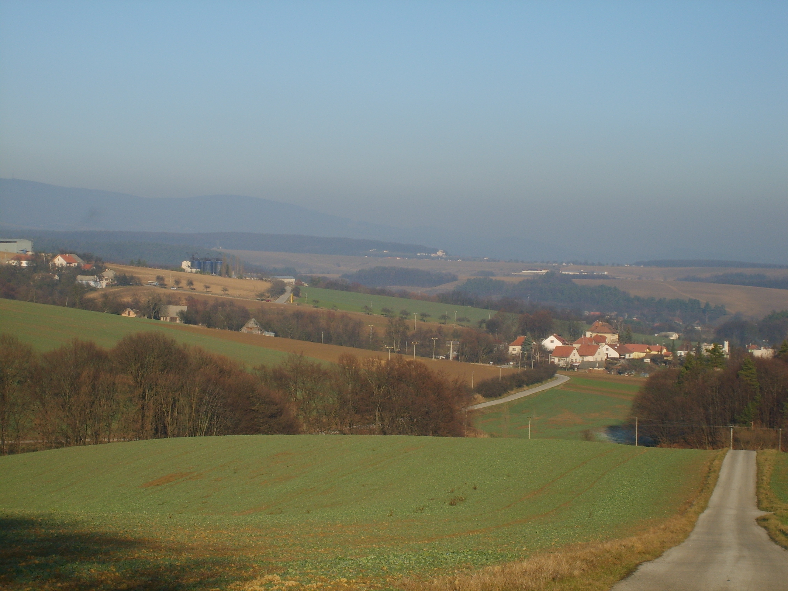 View of the village of Jablonka Slowakia